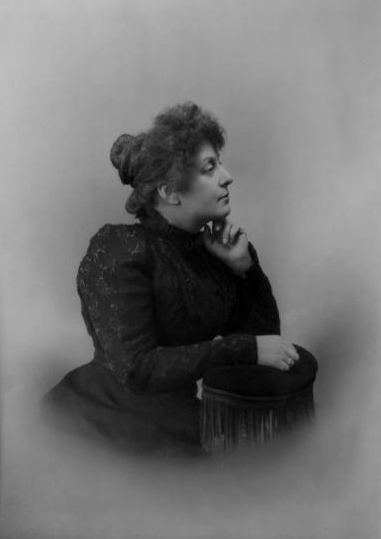 Russian writer Anastasia Verbitskaya.